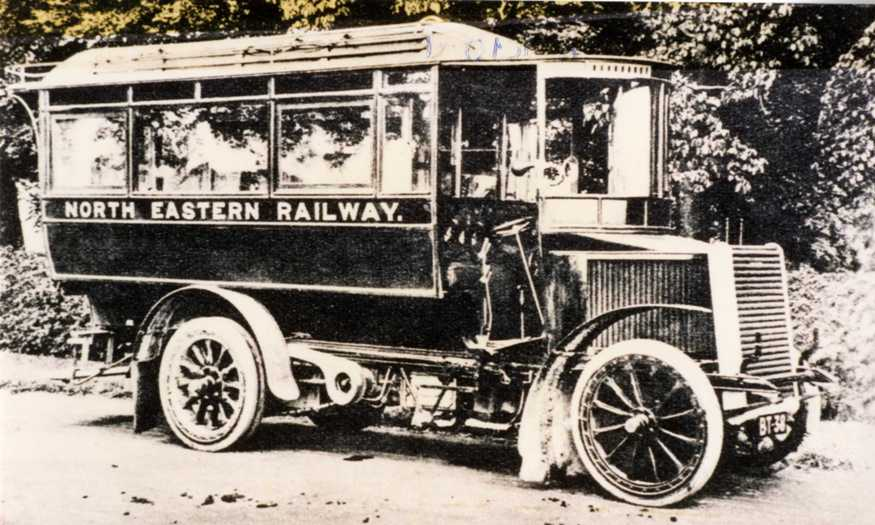 In the early 1900s, this Clarkson steam bus was the popular mode of public transport around Beverley. With a top speed of 12mph it still beat walking or jogging to your destination, but seats were at a premium as it only carried 10 people! (Why not try searching our East Riding of Yorkshire Map for more historic images? ) (Copyright) We're happy for you to share this digital image within the spirit of Creative Commons. Please cite ' ' when reusing. Certain restrictions on high quality reproductions and commercial use of the original physical version apply. If unsure please